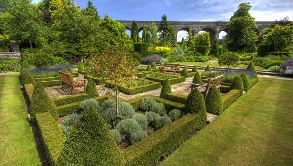 Parterres Garden, with viaduct of Kilvercourt behind - in Somerset England. brand image